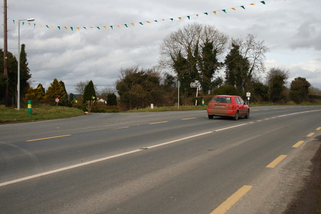 Rathconnell Cross Road junction on the N52 at Rathconnell.